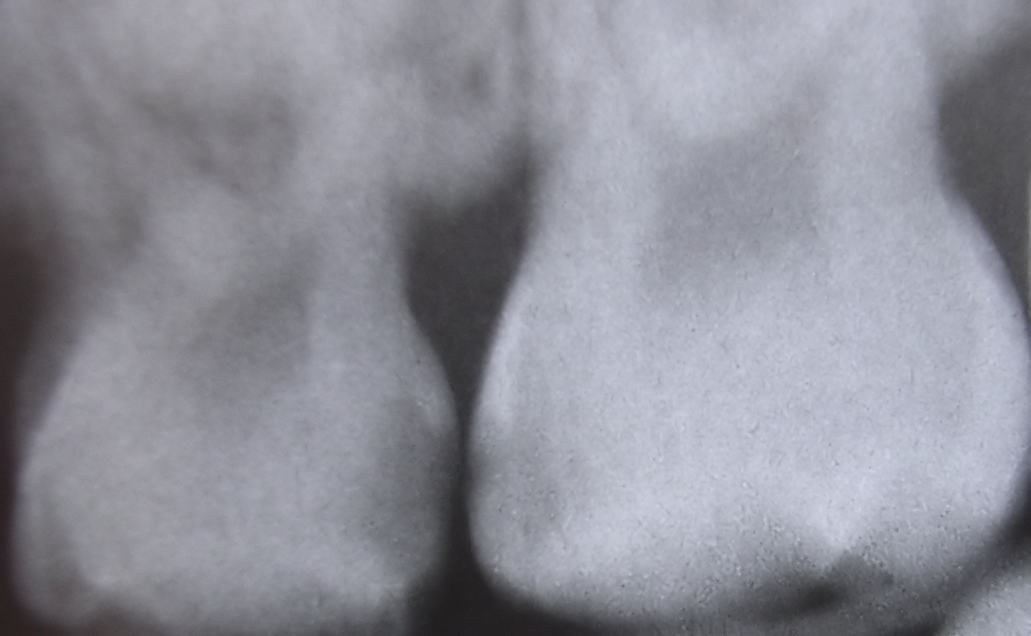 Photograph taken of radiograph showing interproximal decay between first and second left maxillary deciduous molars (i and j). Photograph cleaned up with Neat Image. Source: Photo taken by dozenist.